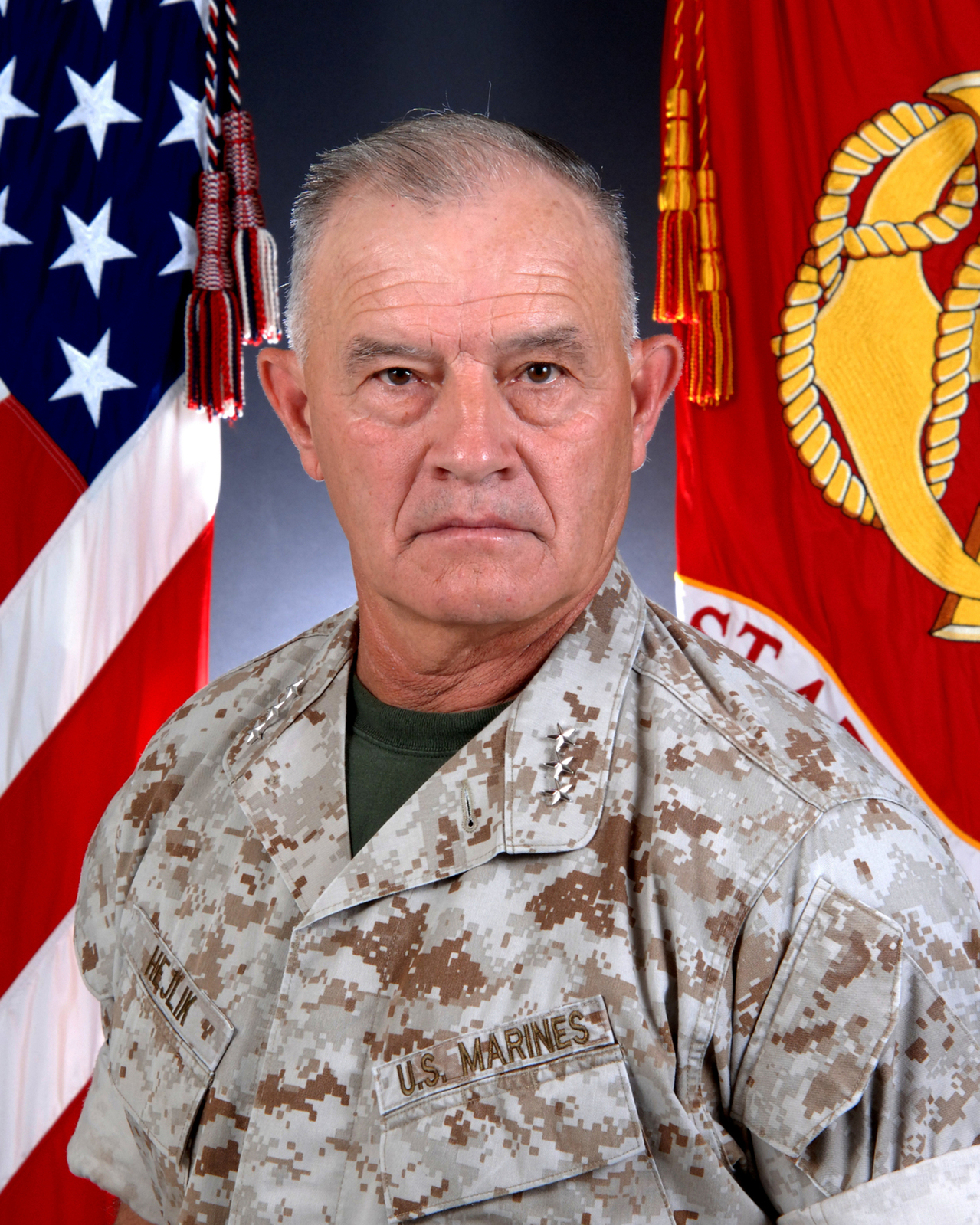 Lieutenant General Dennis Hejlik, USMC, commanding general, II Marine Expeditionary Force.